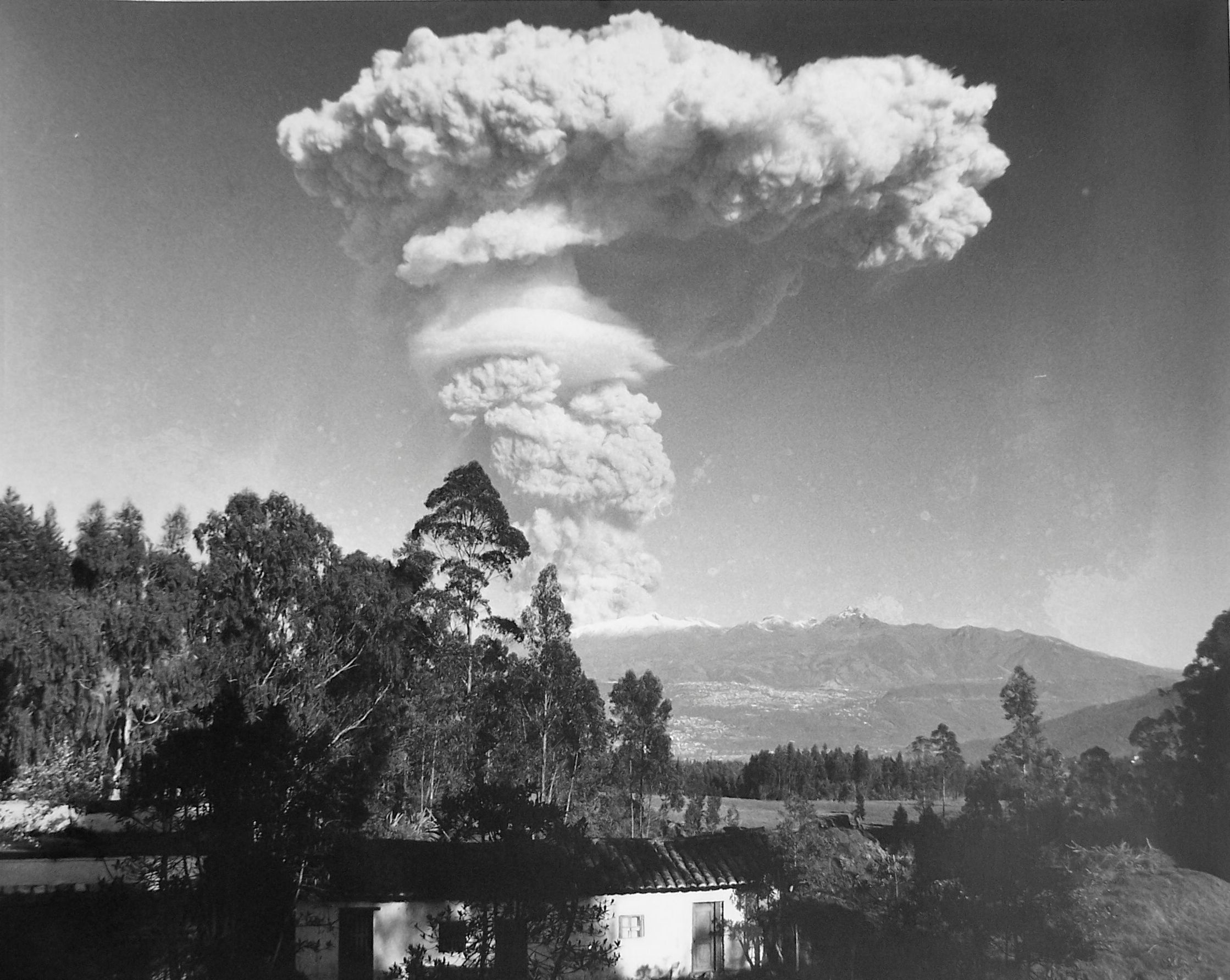 A picture of the eruption of Guagua Pichincha in August 1999 from some 40 km to the east of the city of Quito; scan of a B/W photo